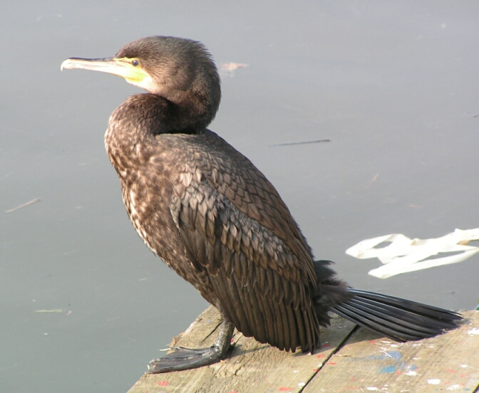 Phalacrocorax carbo at seaport in Germany